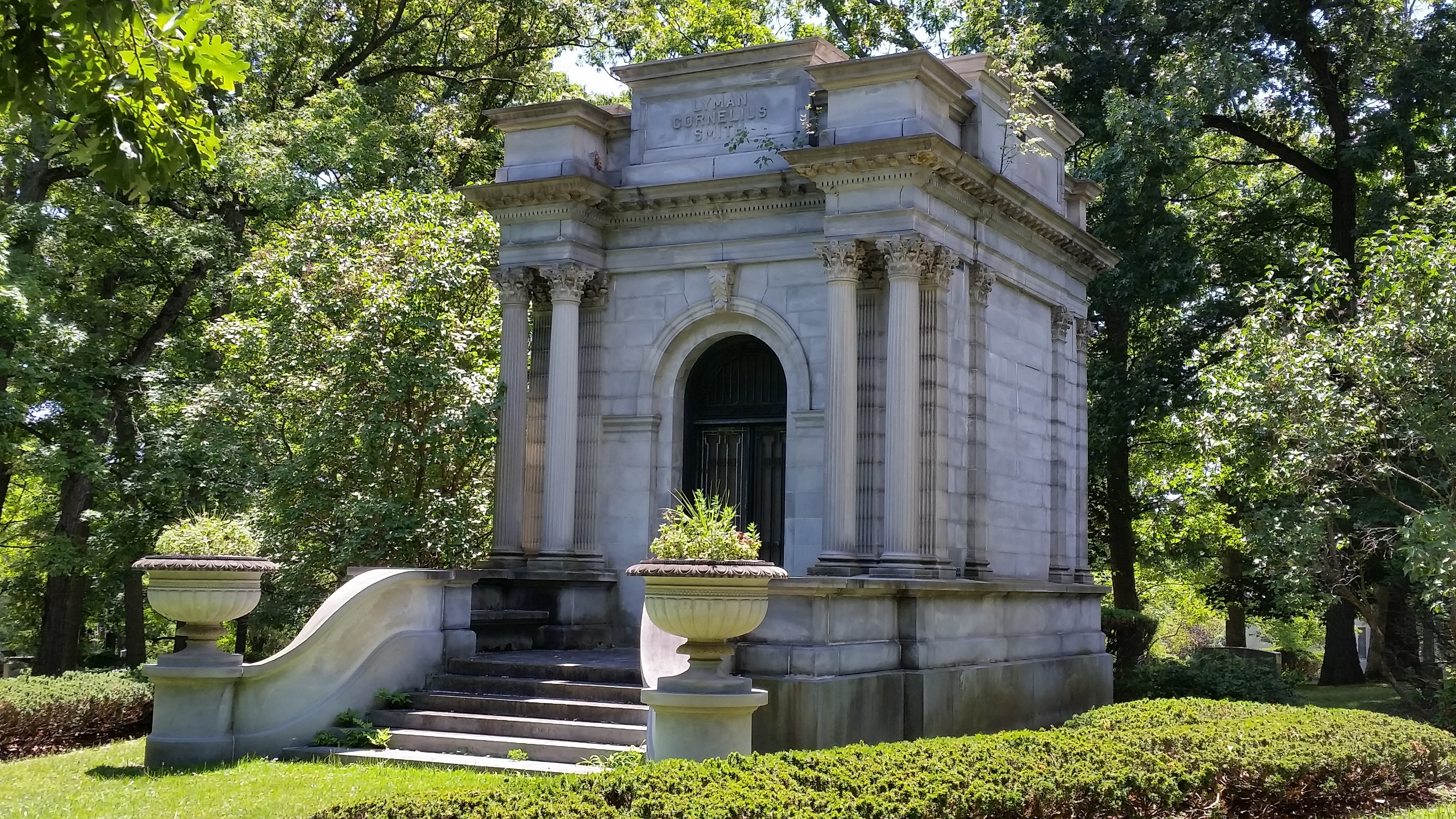 Lyman Cornelius Smith memorial, Oakwood Cemetery, Syracuse, NY